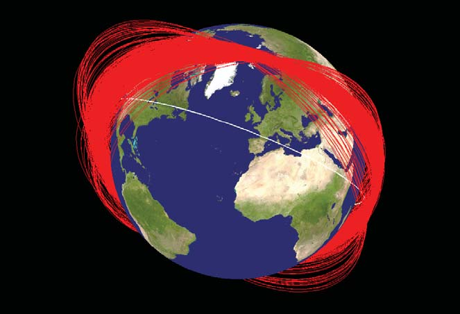 Known orbit planes of Fengyun-1C debris one month after its disintegration by a Chinese interceptor. The white orbit represents the International Space Station